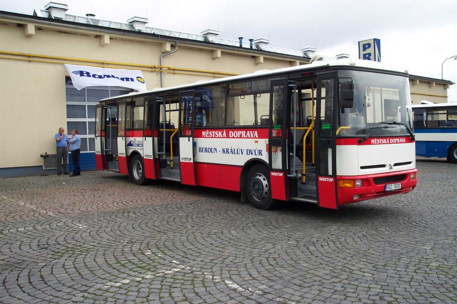 Beroun, bus type Karosa B 952 E - Autobus typu Karosa B 952 E v Berouně